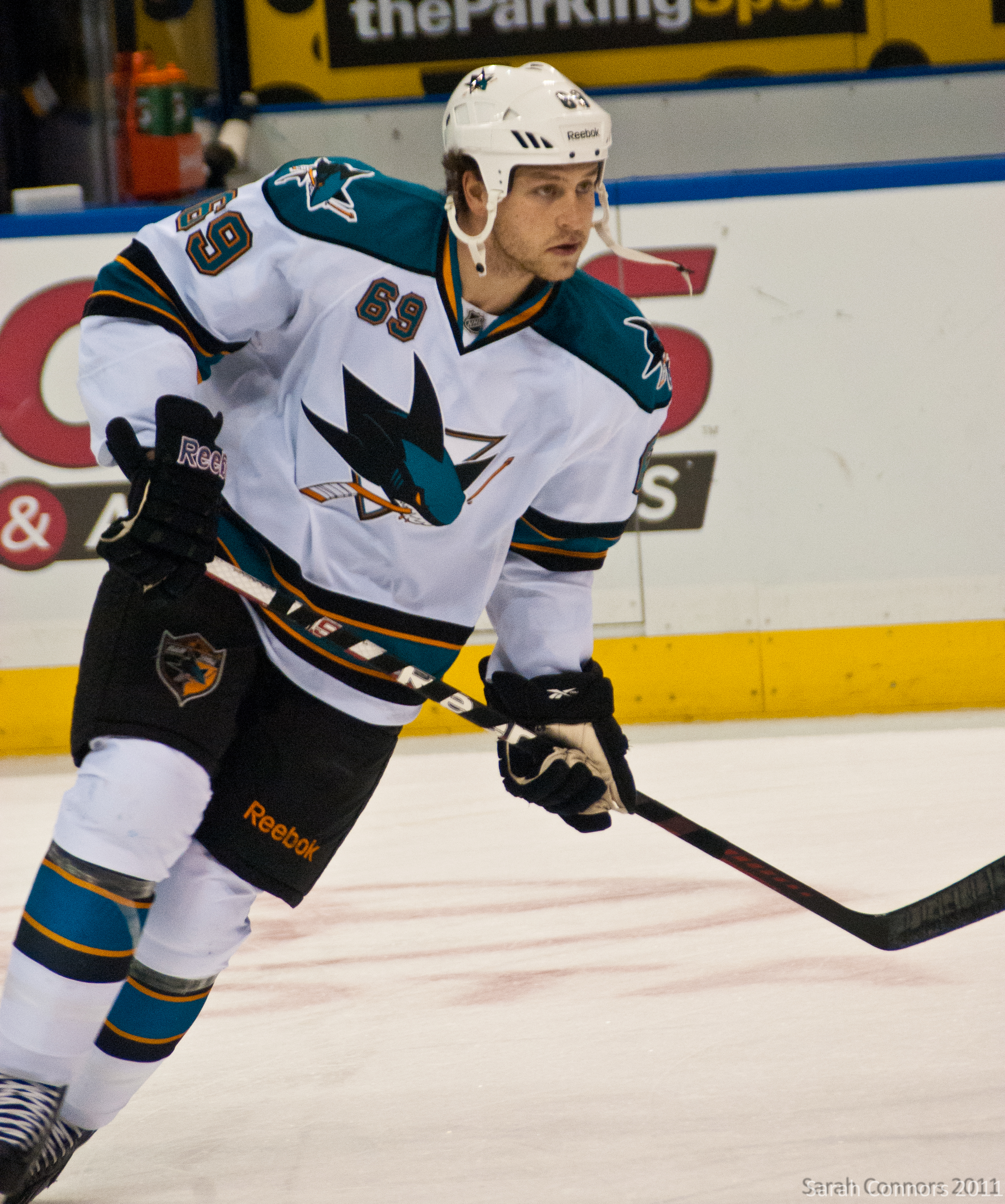 Andrew Desjardins, Sharks @ Blues 12/10/11